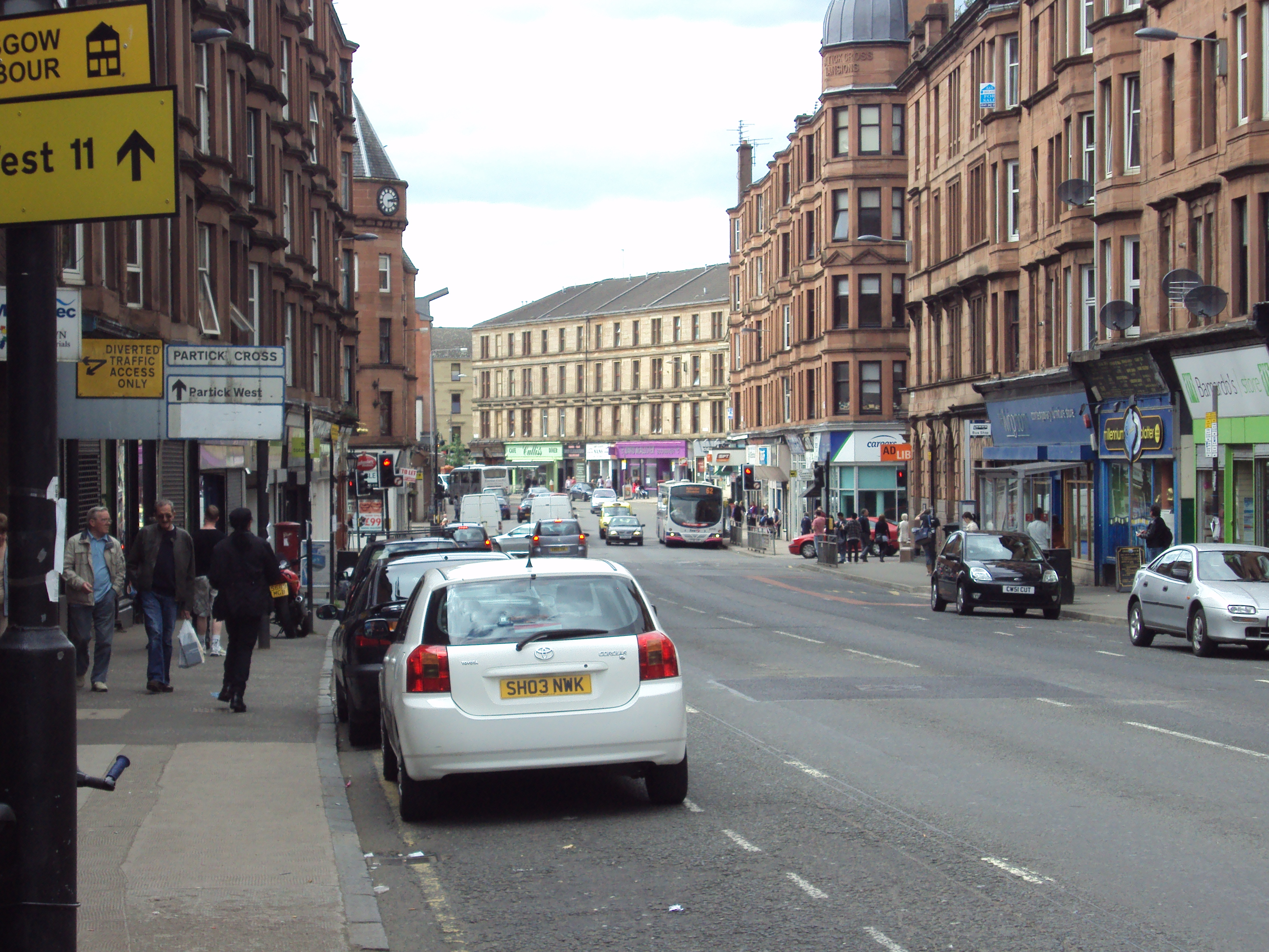 Dumbarton Road in Glasgow's West End, Scotland.